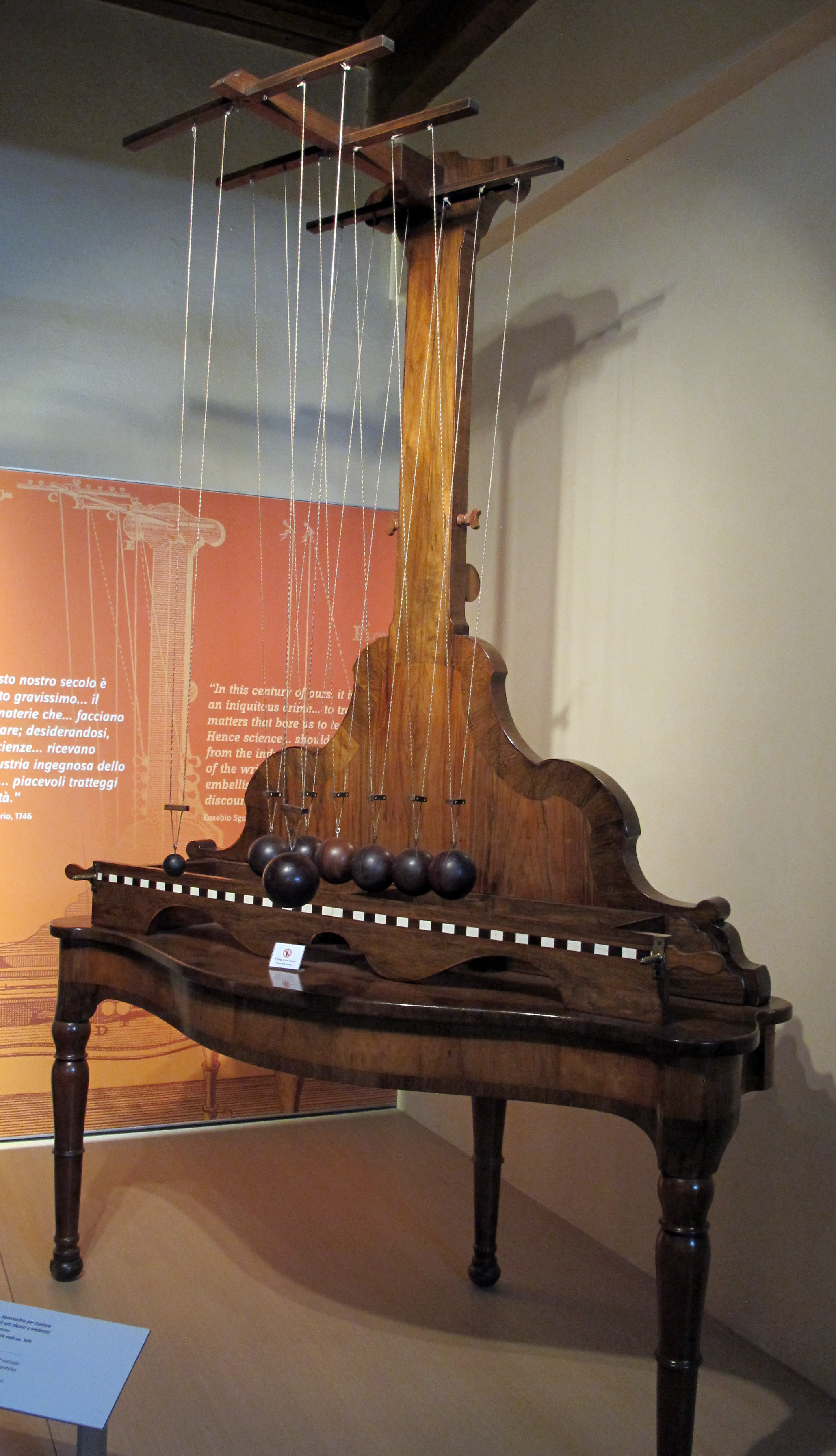 Elastic and inelastic collisions apparatus.